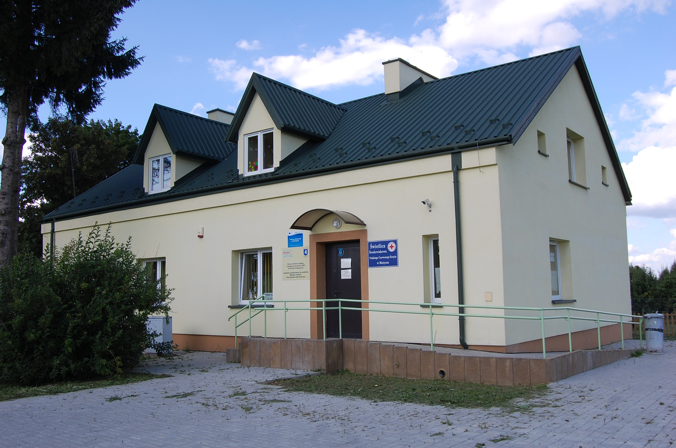 The building of the former House of Culture in Motycz. Currently, the Centre for Distance Education.